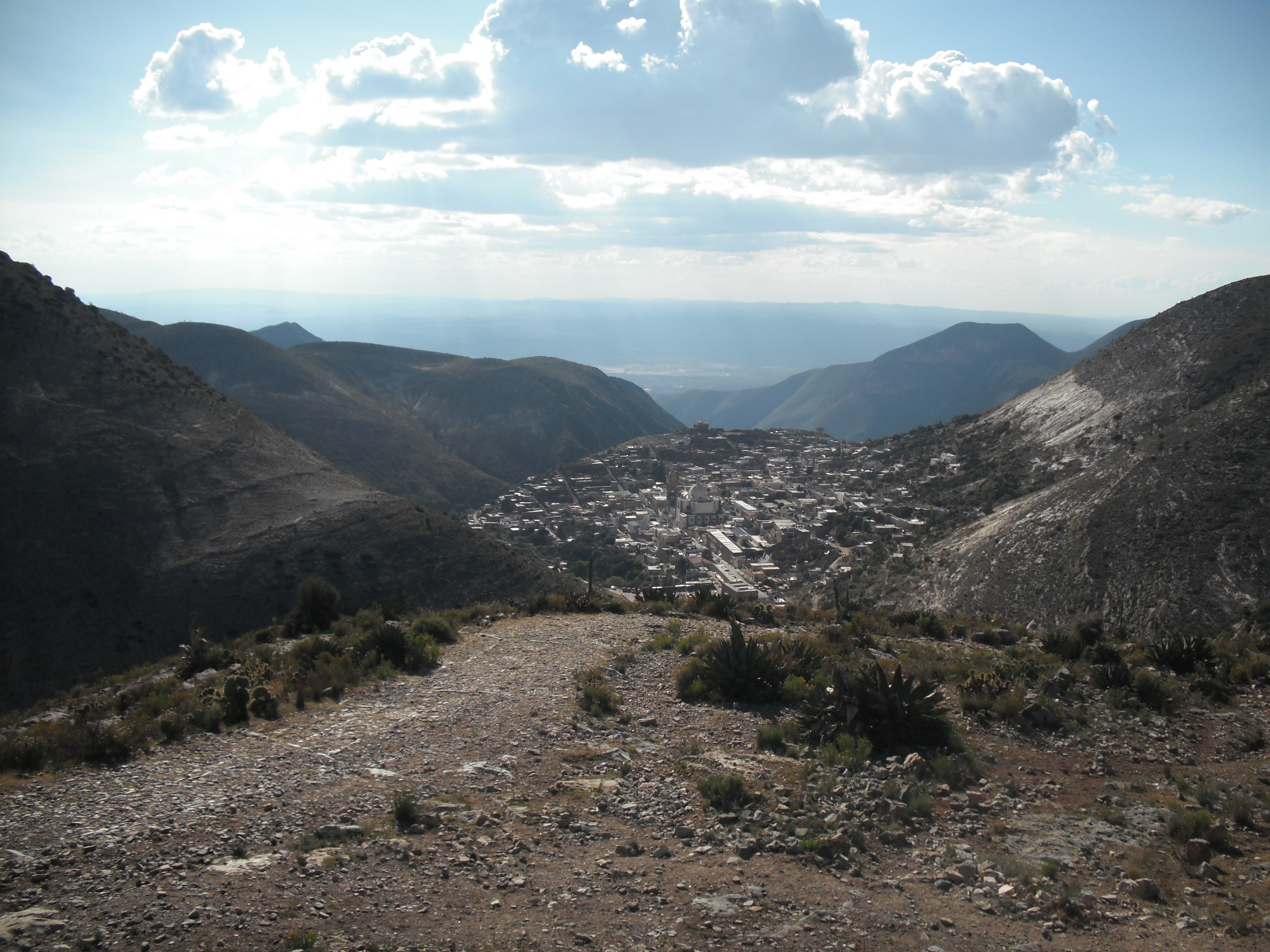 View of Real de Catorce, from a ghost town on the hill behind the town ccenter